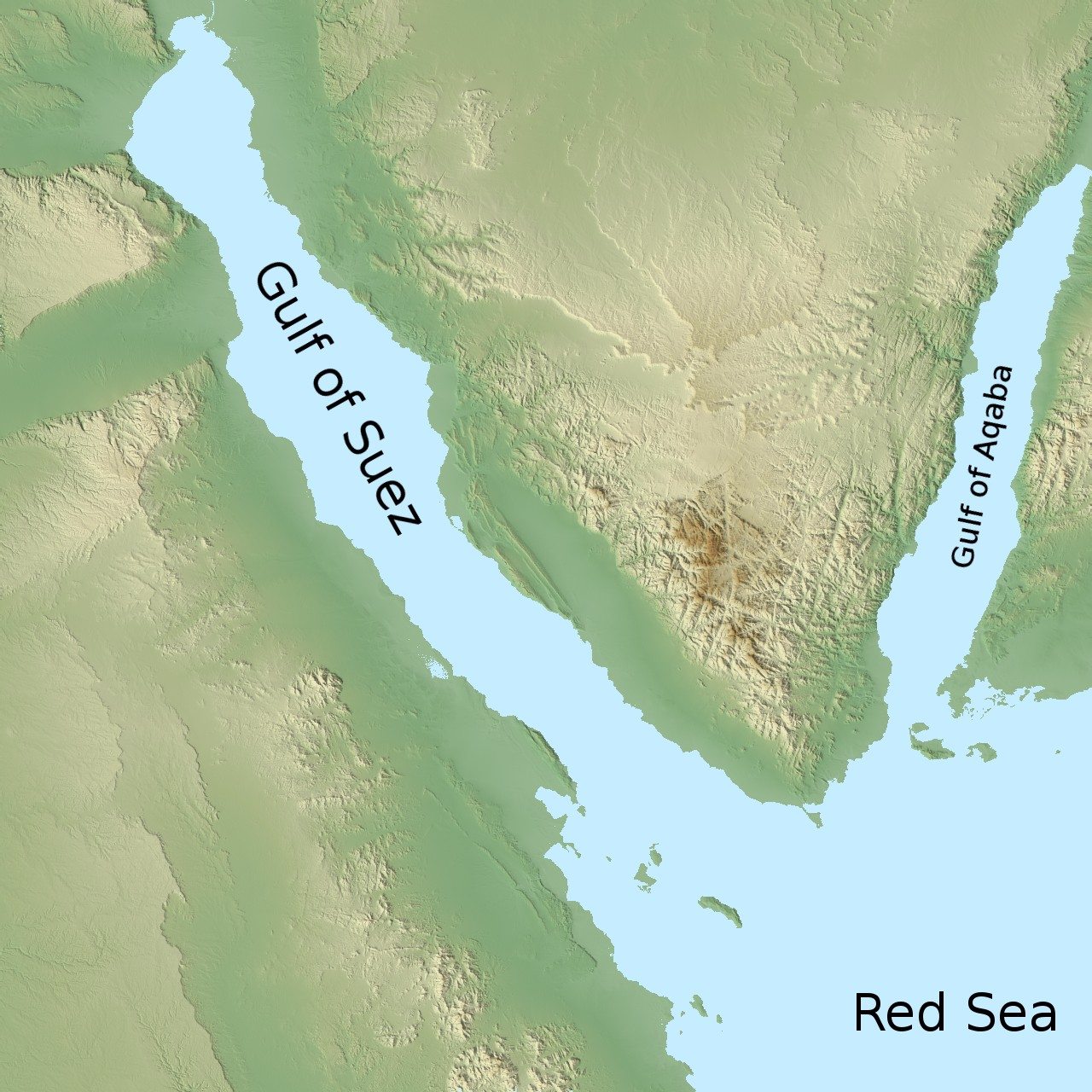 A map depicting the location of the Gulf of Suez relative to the Red Sea